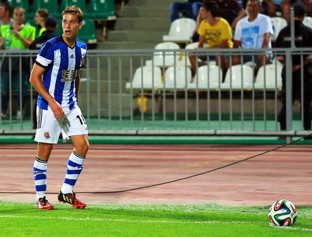 Sergio Canales